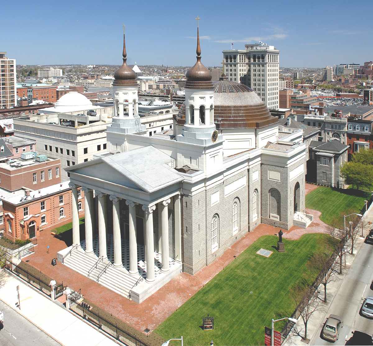 A more recent photo of the restored Baltimore Basilica.